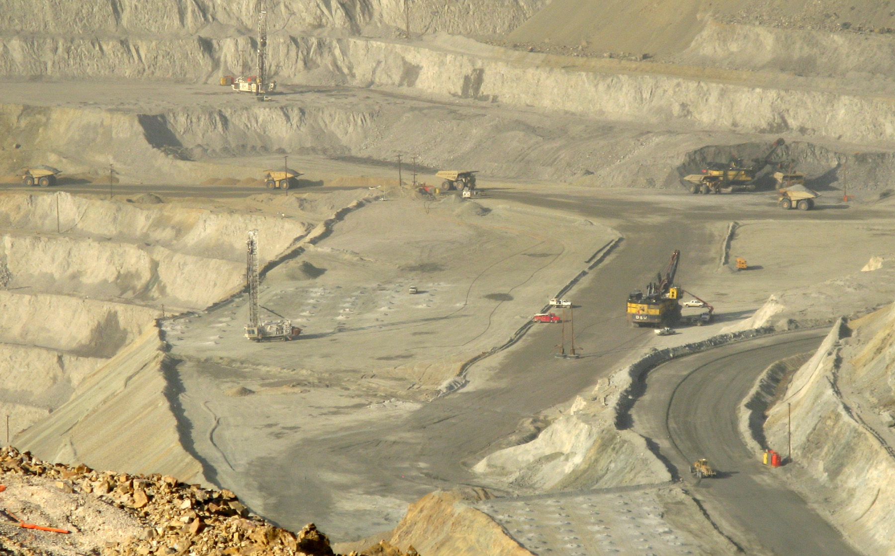 Bingham Canyon Mine, west face detail, Utah / 2008